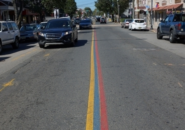 Colombian neighborhood in New Jersey